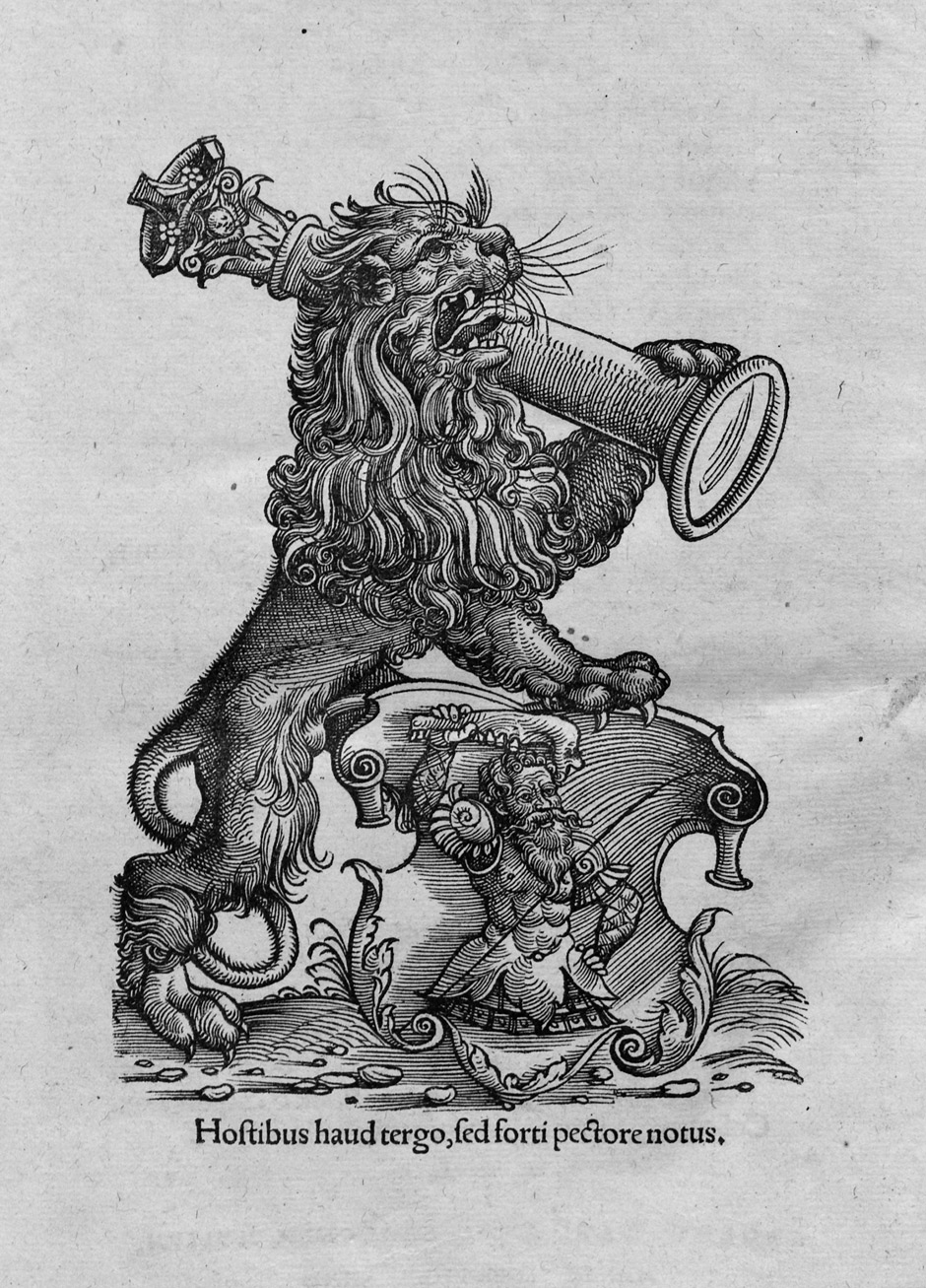 Druckermarke aus: [Burcardus aus Biberach]: Chronicum abbatis Urspergensis, continens historiam rerum memorabilium, a nino assyriorum rege ad tempora Friderici II, Straßburg, Crato Mylius, 15(38)-1540. (Motto "Hostibus haud tergo, sed forti prectore notus")